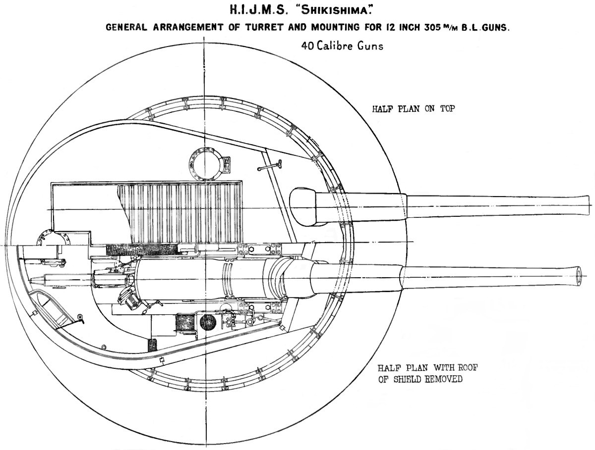 Plan diagram of 12-inch 40-calibre gun turret of Japanese Shikishima class battleship.